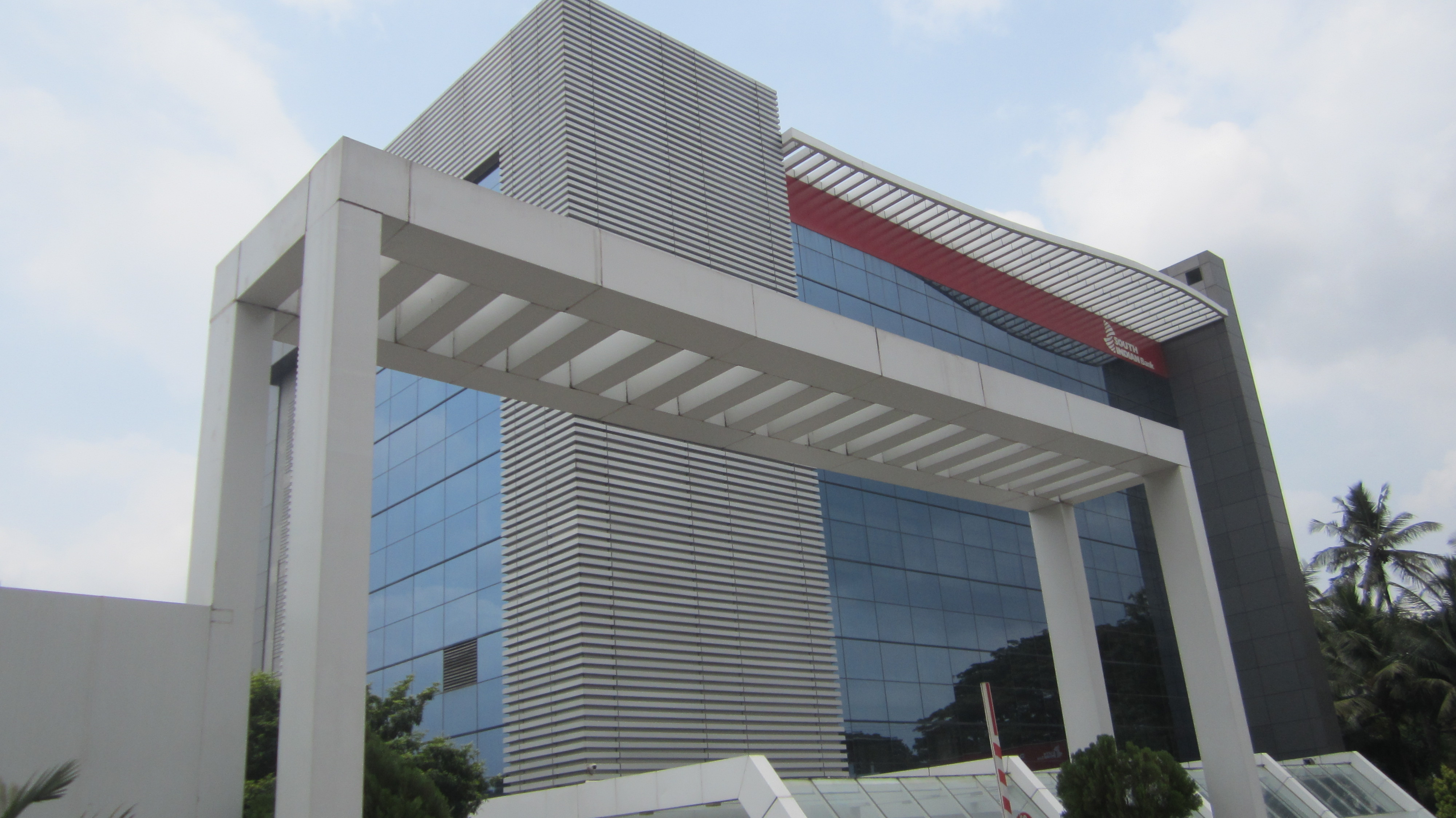 South Indian Bank head office in Thrissur city